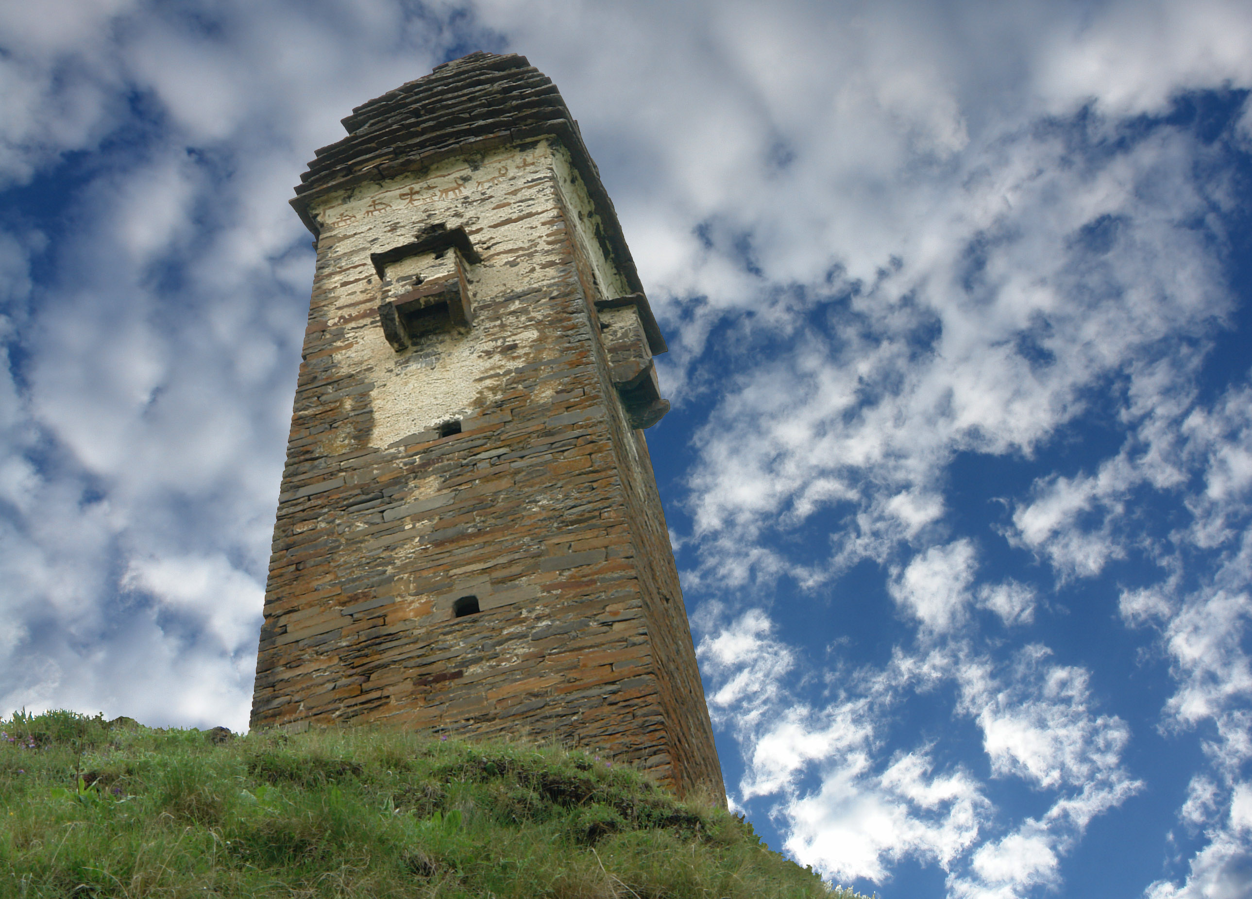 Lebiskari Fortress in Khevsureti, Georgia